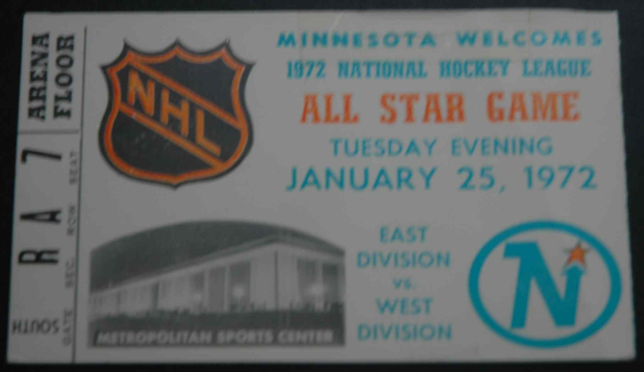 Ticket for the NHL All-Star Game 1972, shown in the Hall of Fame in Toronto